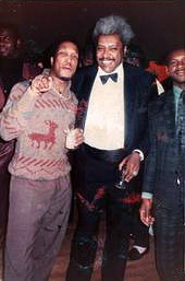 A picture of producer Michael Ellis and His Mentor Don King